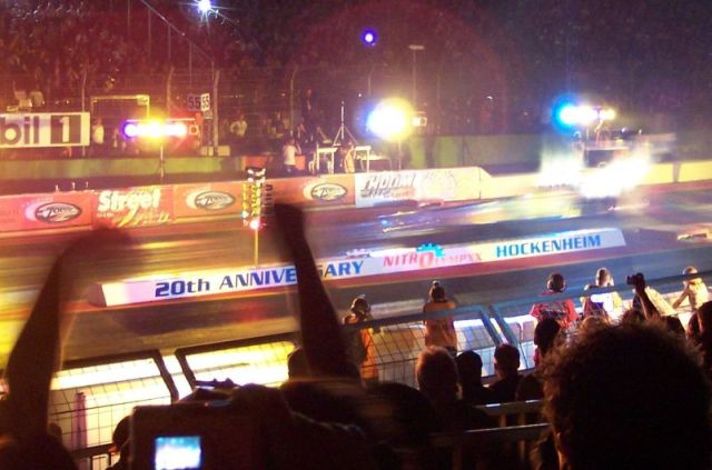 Nitrolympics TopFuel